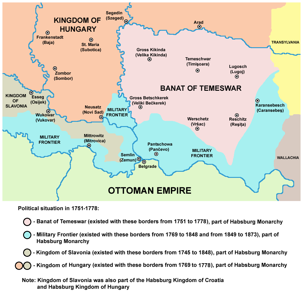 map of the Banat of Temeswar, Kingdom of Slavonia and Military Frontier in 1751-1778.